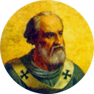 Portait of Pope John VIII in the Basilica of Saint Paul Outside the Walls, Rome